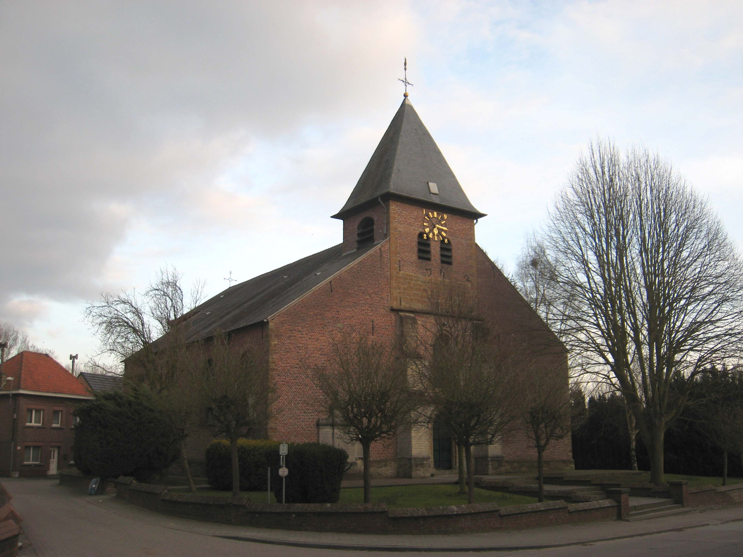 Church in Outer, near Ninove.